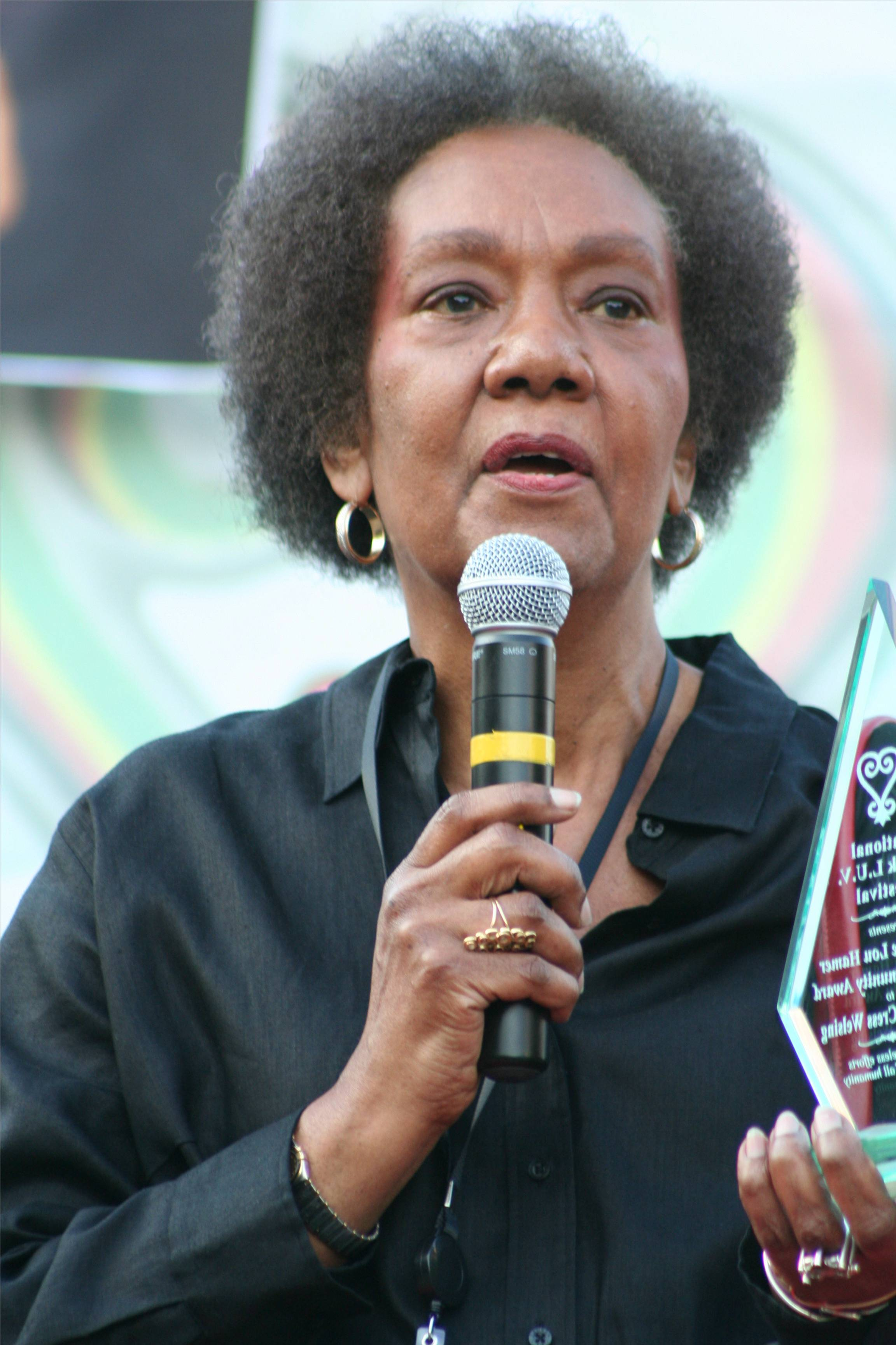 Dr. Frances Cress Welsing receives Fannie Lou Hamer Community Award during 10th Annual National Black L.U.V. Festival at John Marshall Park located between Pennsylvania Avenue and C Street in NW Washington DC on Sunday evening, 21 September 2008. Photo credit: Elvert Xavier Barnes Photography